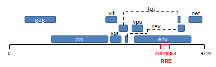 This is a representation of the HIV-1 genome with the RRE labeled. I made it so it's fair use.